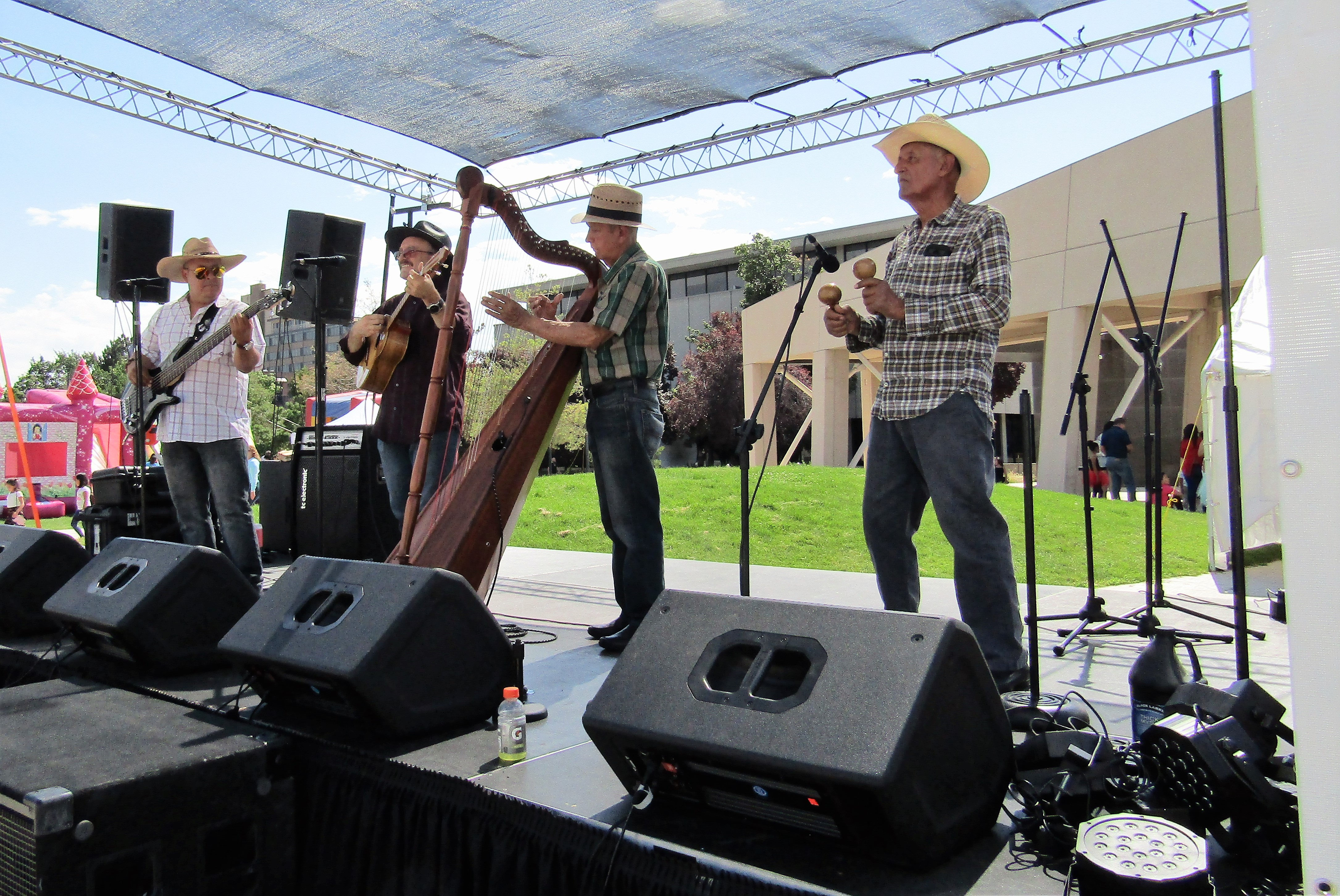 Band playing at the 3rd Venezuelan Festival Utah at the Salt Lake City Library.